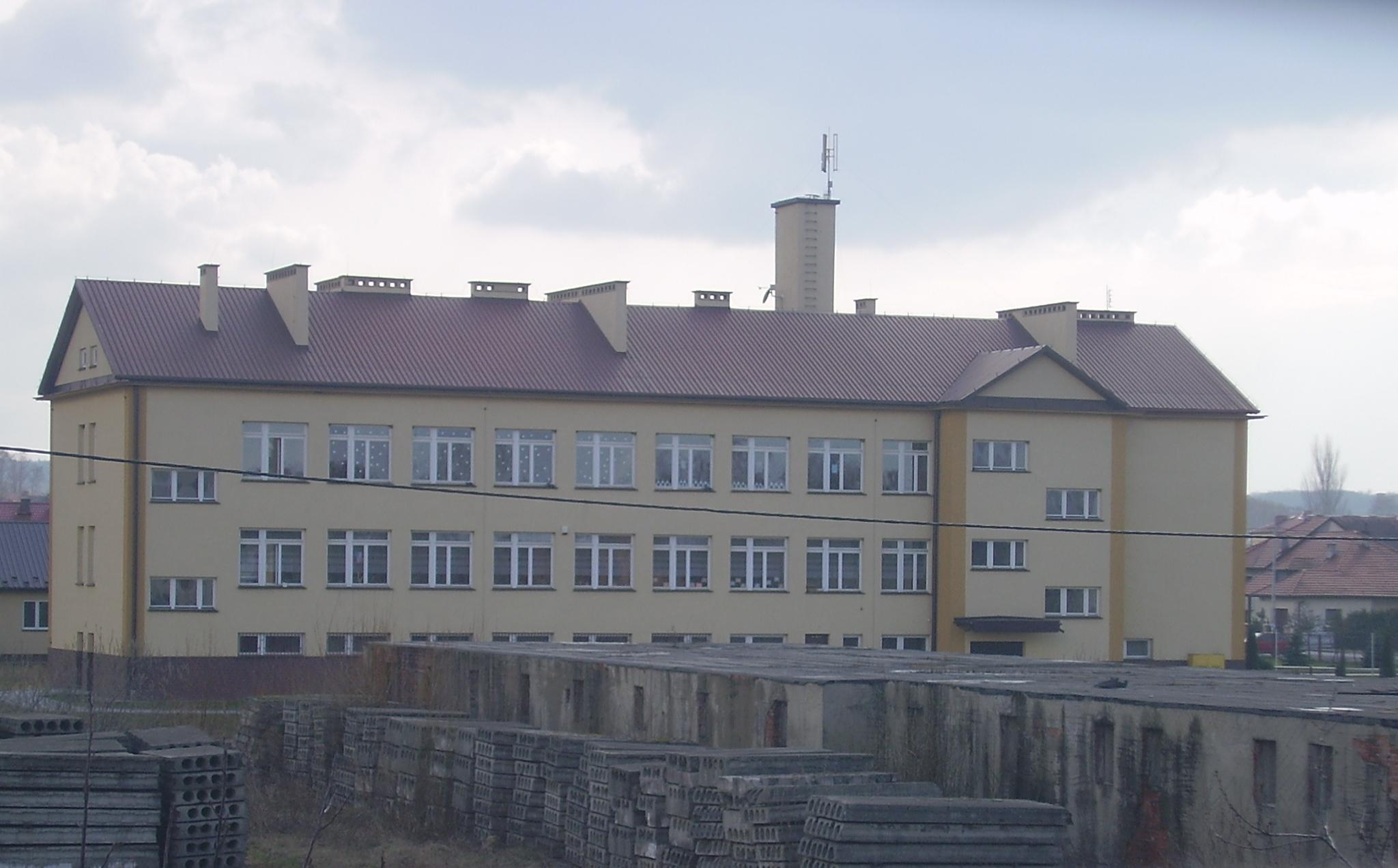 primary and grammar school in Rzezawa (Poland)